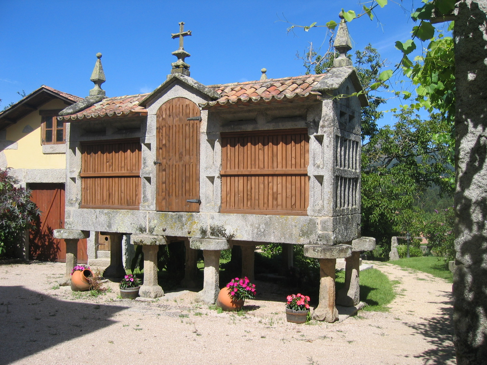 A "Hórreo", a typical traditional store for agricultural products in northwestern Spain; Gondomar, Galicia Foto: Rolf Thum, July 2006